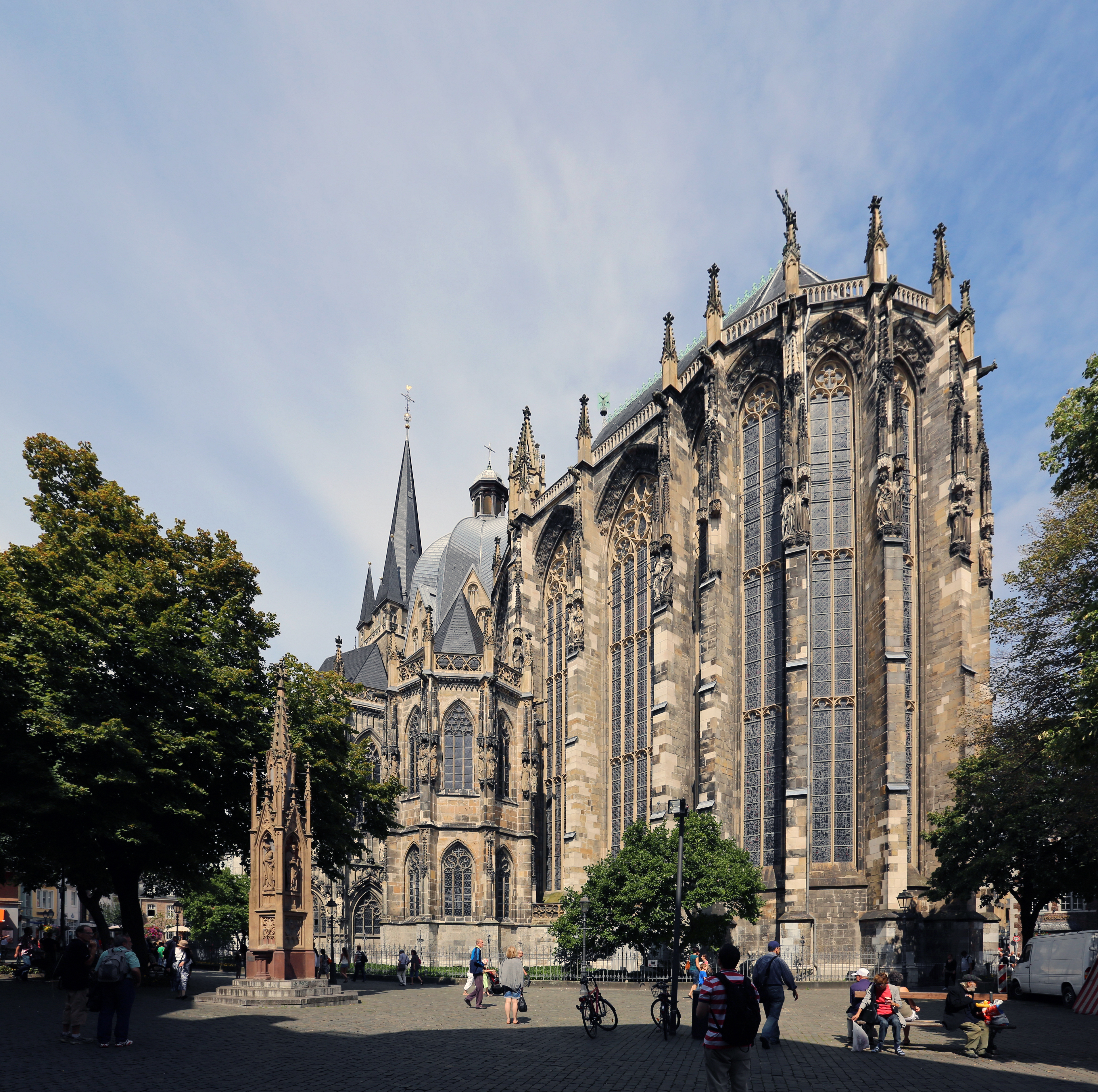 Choir of Aachen Cathedral, Germany